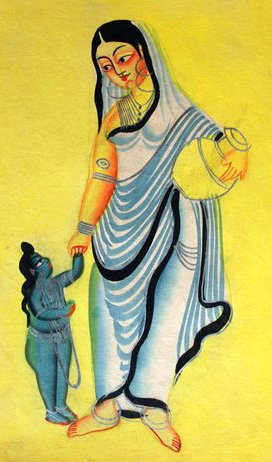 Kalighat painting